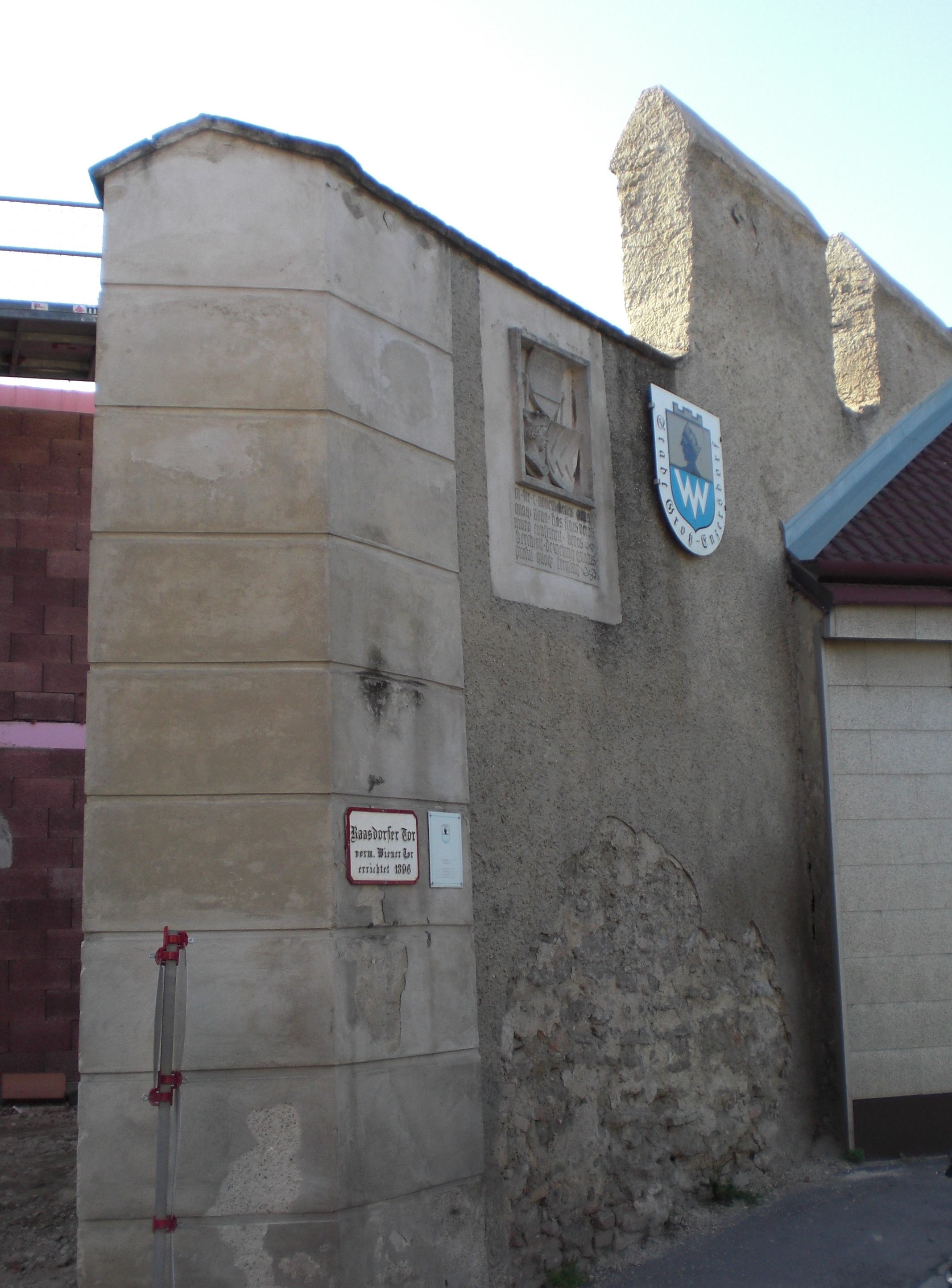 Raasdorf gate in the city walls of Groß-Enzersdorf, Lower Austria, dated 1396